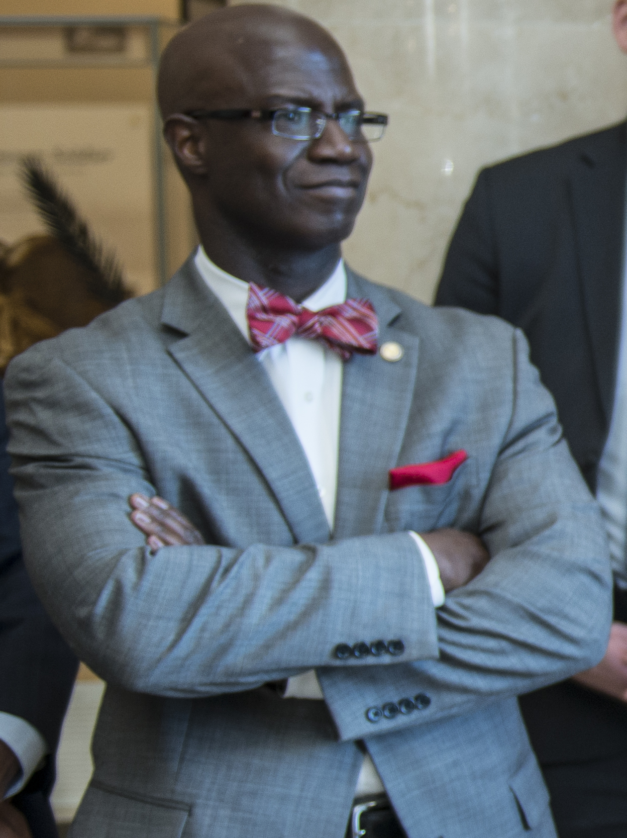 Virginia Governor Terry McAuliffe thanks the 3d U.S. Infantry Regiment (Old Guard) Tomb Sentinel who conducted his wreath-laying ceremony at Arlington National Cemetery, Arlington, Virginia, January 9, 2018. Besides laying a wreath at the Tomb of the Unknown, McAuliffe also toured the Memorial Amphitheater Display Room and met with ANC Senior Leadership. (U.S. Army photo by Elizabeth Fraser / Arlington National Cemetery / released)